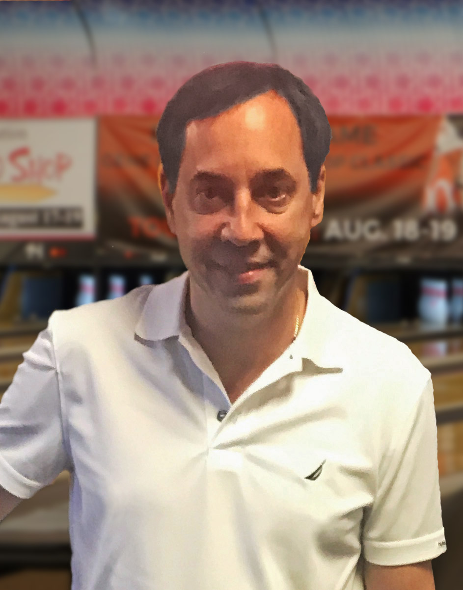 American ten-pin bowler Parker Bohn III at a PBA bowling tournament in Middletown, Delaware, U.S., on August 19, 2018. Miscellaneous image enhancements to compensate for low lighting, and substitution of new background image taken at same facility.